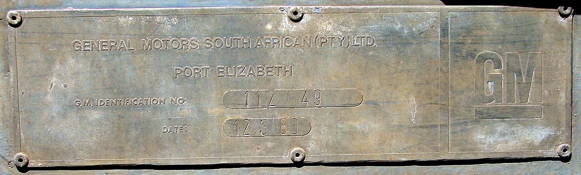 South African Class 34-800 34-849 builder's plate Builder's Number: GMSA 112-49 Type: EMD GT26MC Location: Rust de Winter, Limpopo Upgrading: Fitted in 2010 with D31 traction motors and sill mounted handrails on the right side only